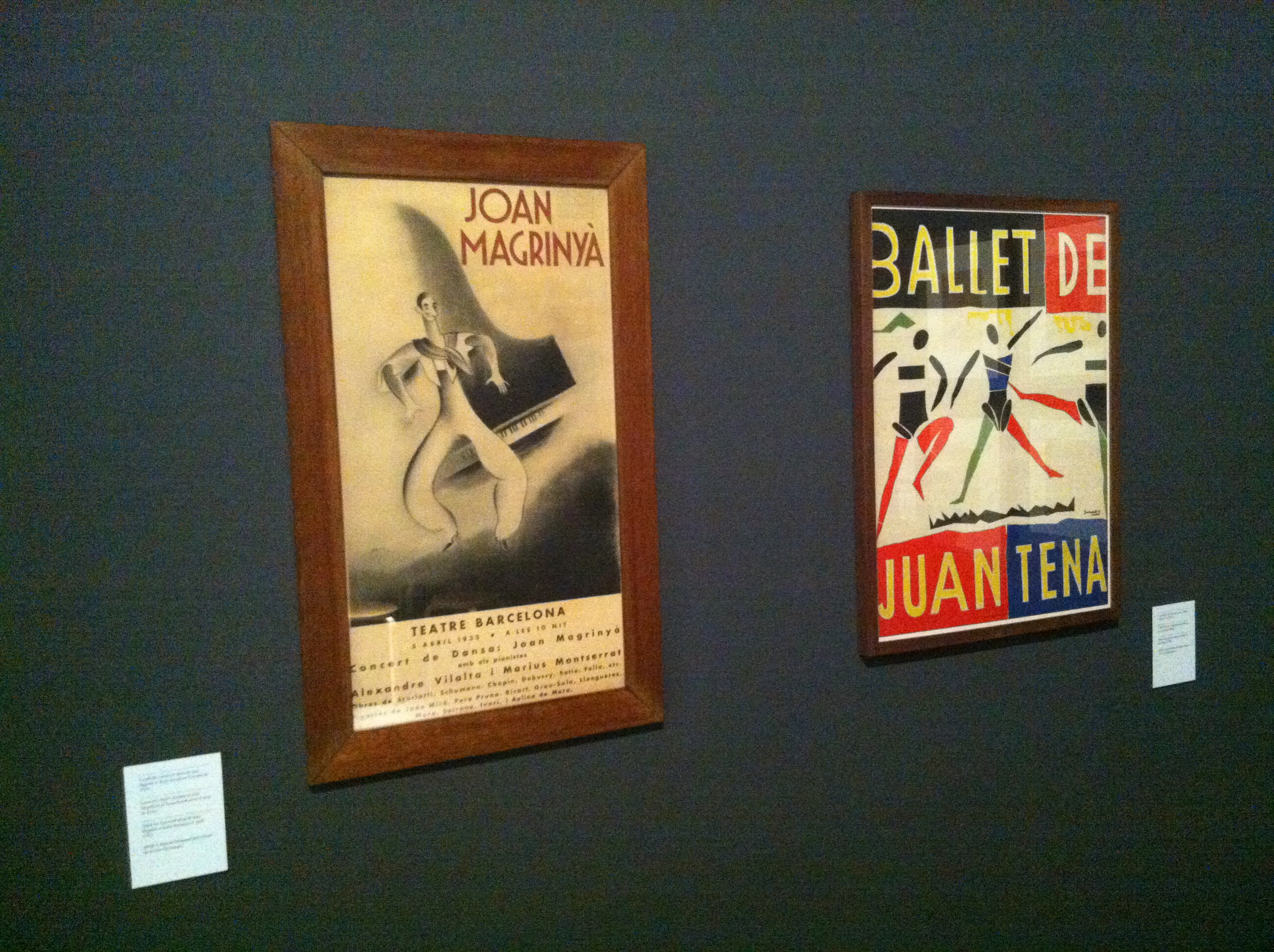 Catalan Performing Arts exhibit at Arts Santa Monica in Barcelona, fall 2012, jan 2013